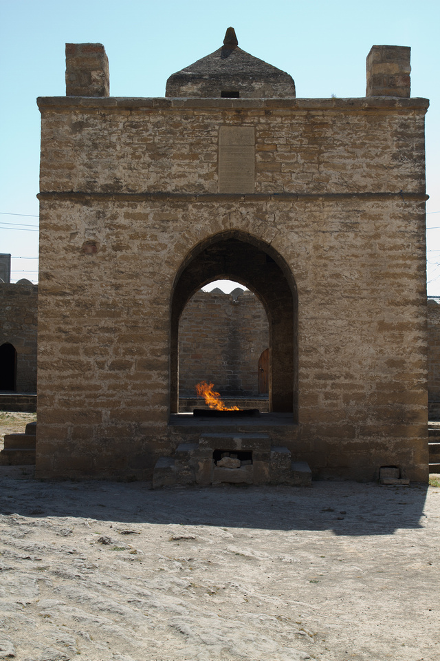 Ateshgah Fire Temple, museum near Baku, Azerbaijan. 2010